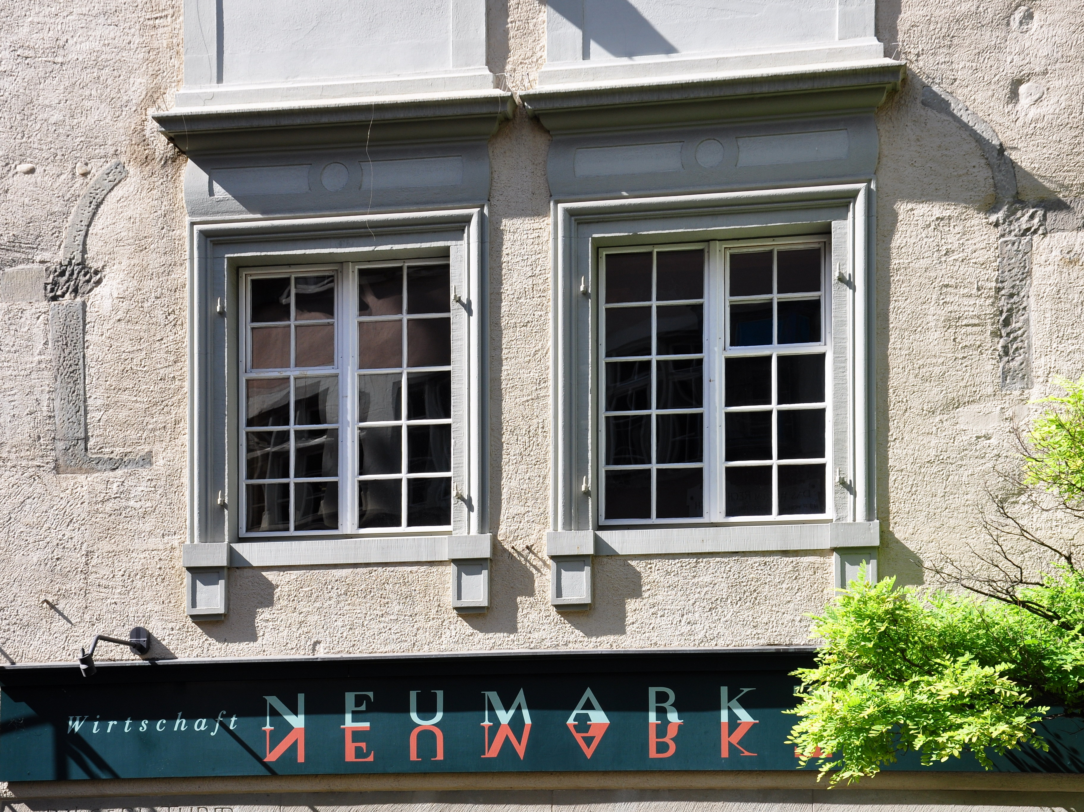 Zürich-Rathaus : Bilgeriturm (13th century) at Neumarkt.